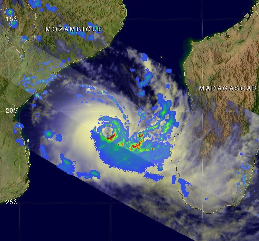 Cyclone Jokwe TRMM Image (March 10, 1115Z)